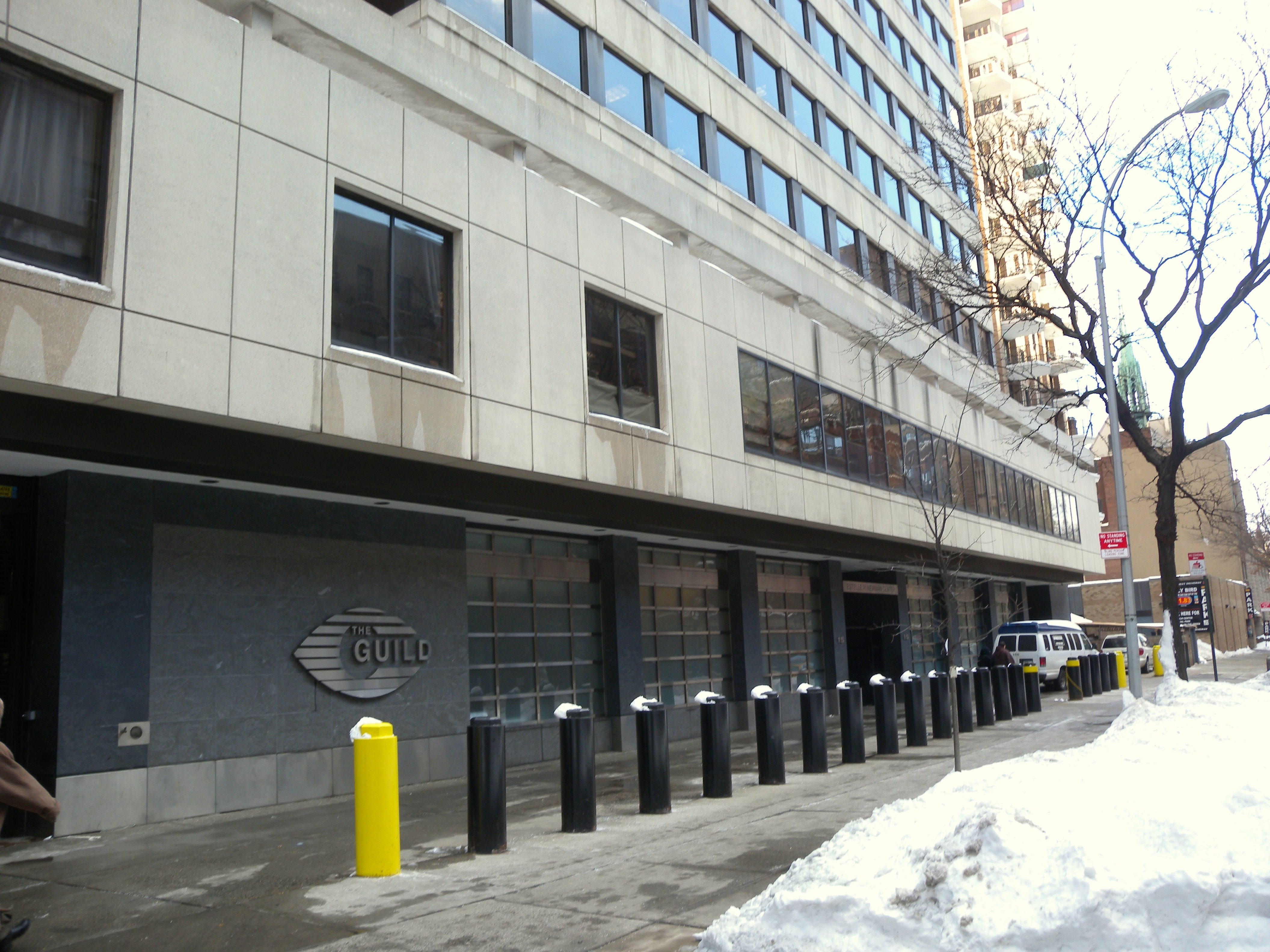 Looking east aong 65th St sidewalk at Jewish Guild for the Blind after snowfall.